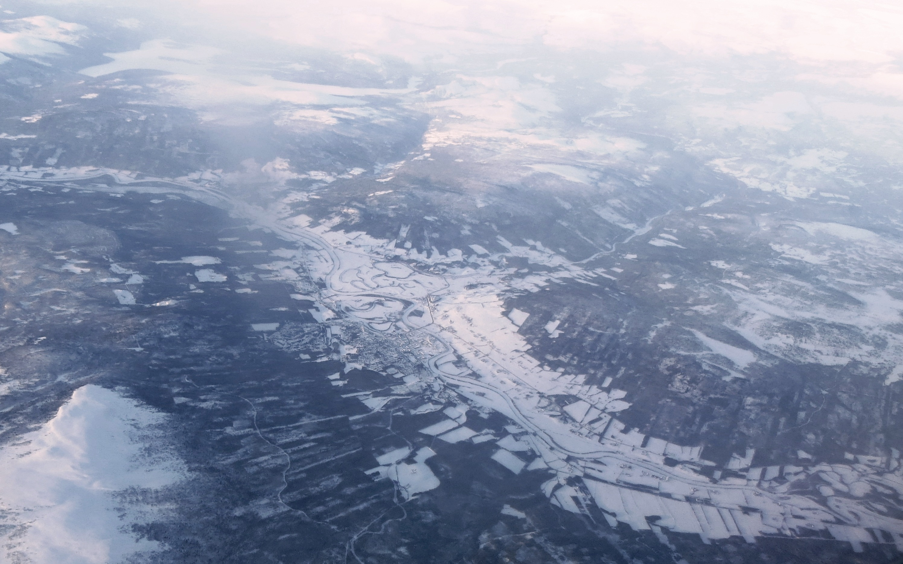 Aerial view of Tynset, from the east towards west . Hedmark county, east Norway